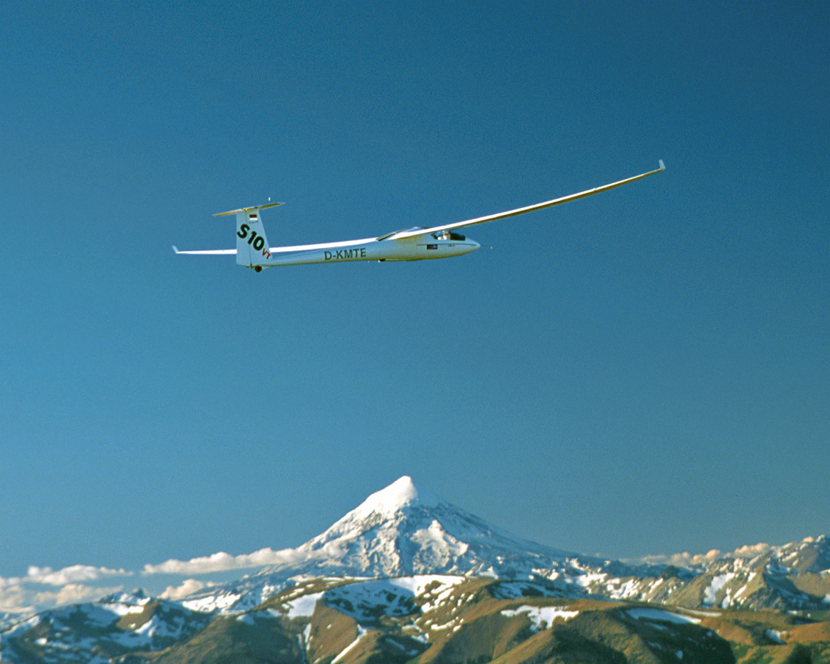 MWP- research aircraft Stemme S10VT above Volcano Lanin